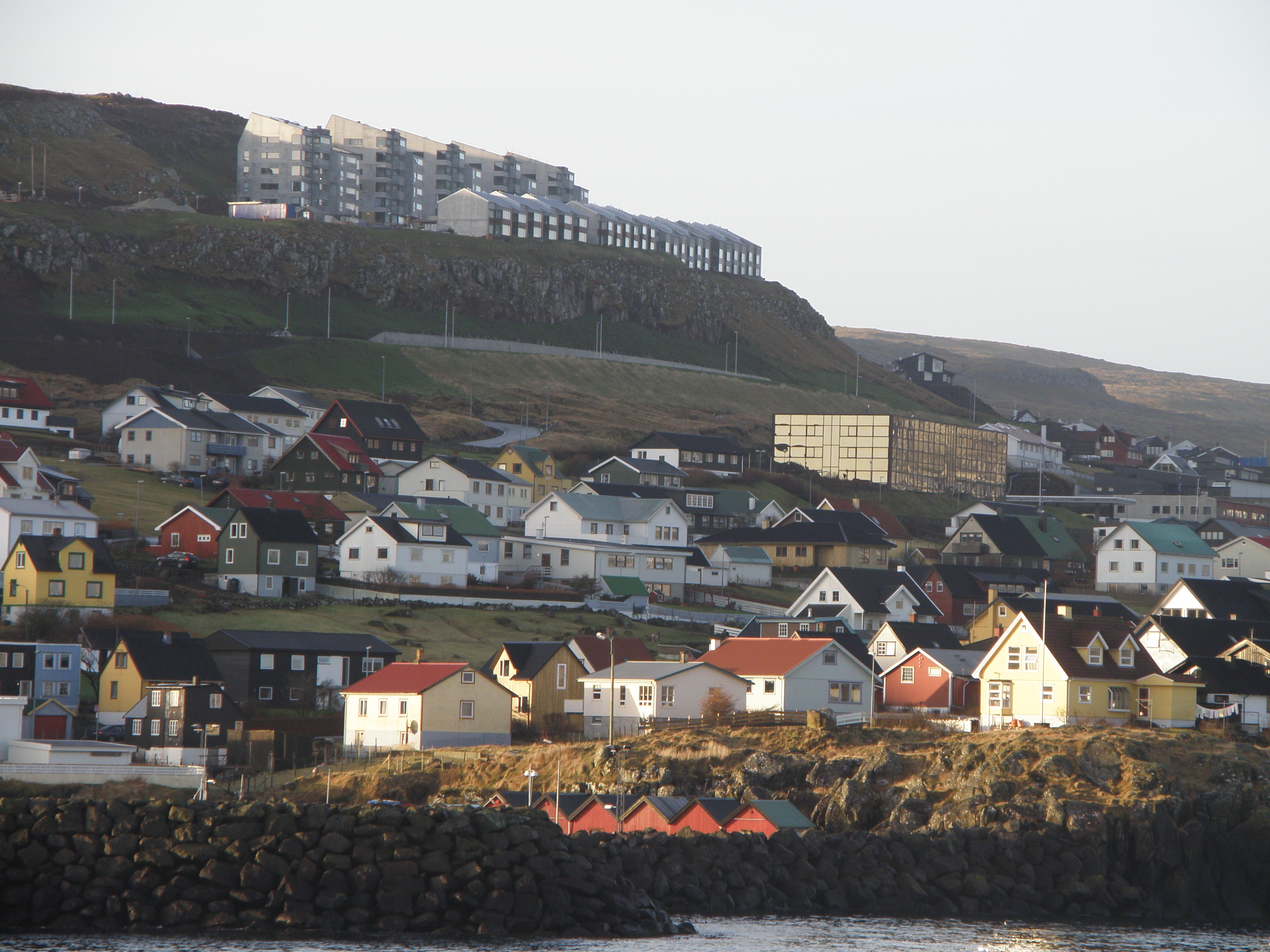 Argir is a village in the Faroe Islands, which now is more like a part of Tórshavn, the capital, as they have grown together. The population of Argir is around 2000. Argir is a part of Tórshavn municipality. The new buildings on the top are just being built here, they are called Undir Húsavarða. The rectangular shiny building houses the Ministry of Finance, Faroese Statistics and Gjaldstovan.